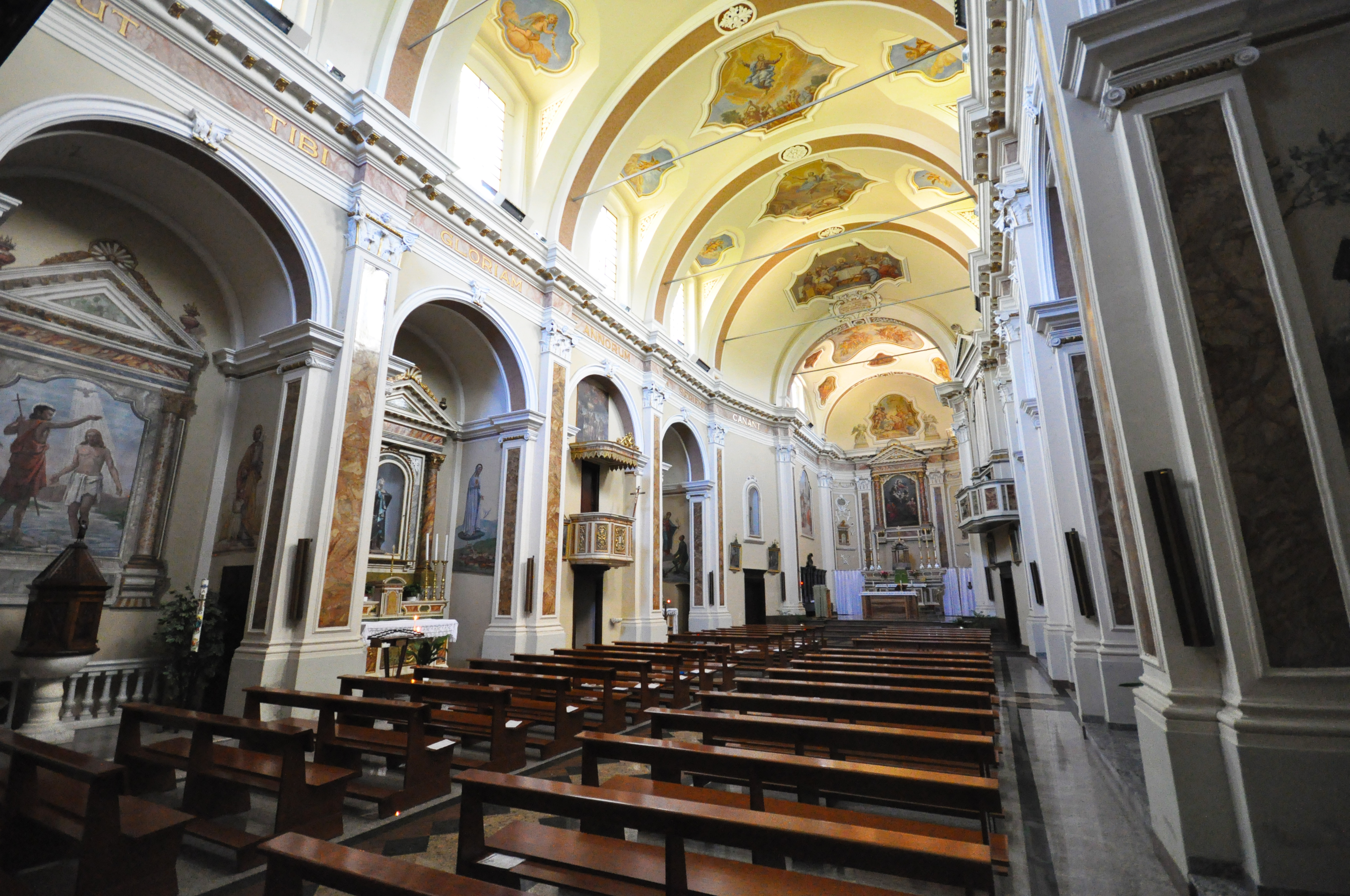 Church in Ossimo inferiore. Internal view